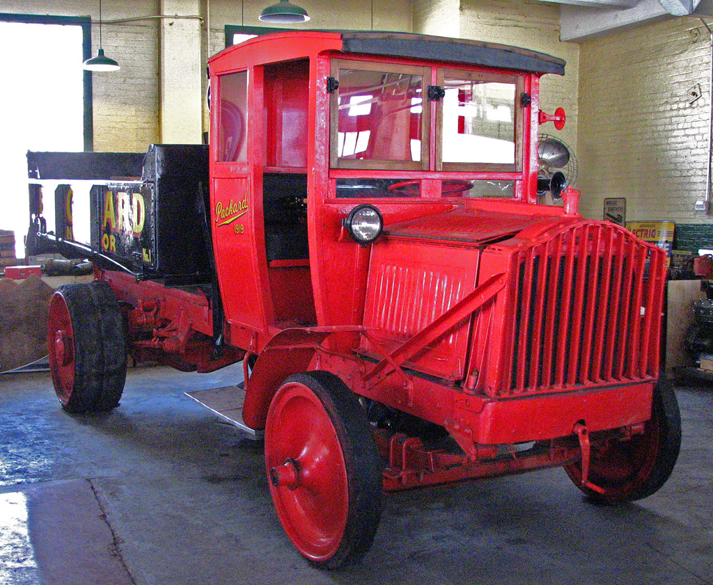 1919 Packard E-Series Flatbed Truck with rubber tires. Another fascinating vehicle seen on a visit to America's Packard Museum in Dayton, Ohio. I remember seeing trucks with solid tires in Columbus.